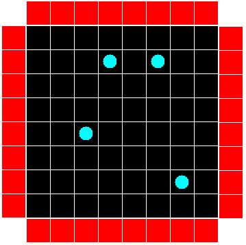 Blackbox start position